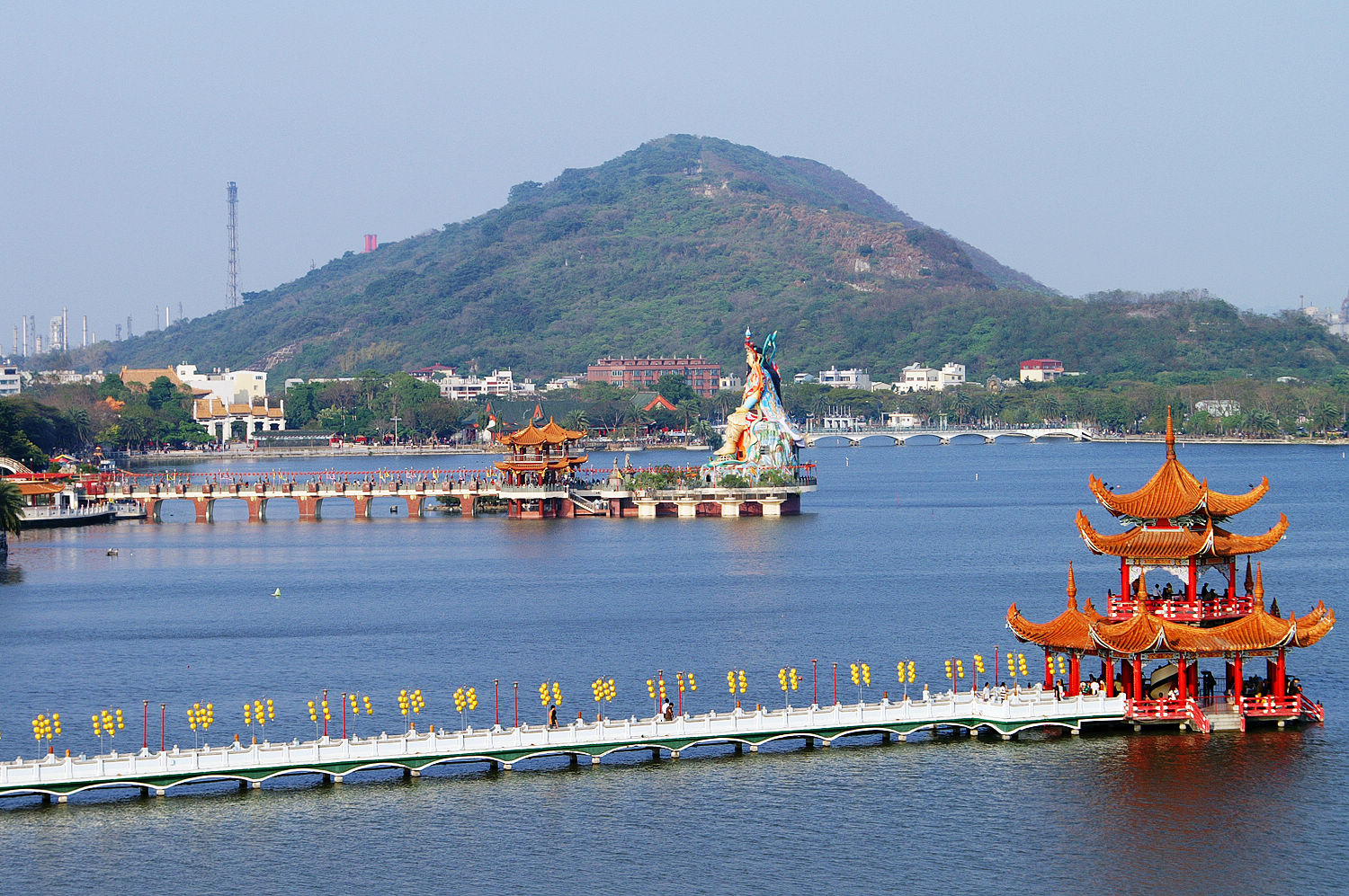 Mt. Ban Ping, Kaohsiung, Taiwan.中文（台灣）: 高雄市半屏山，前方是蓮池潭。